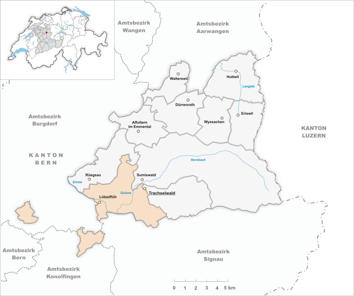 Municipality Lützelflüh